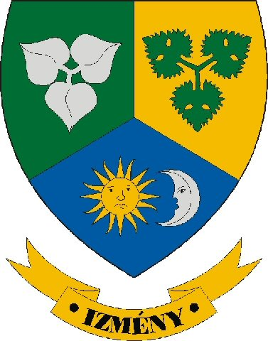 Coat of arms of Izmény, Hungary